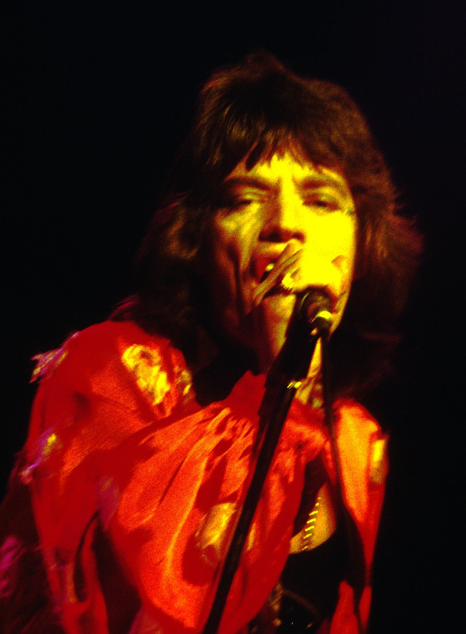 Mick Jagger - North American Tour 1972, Winterland Palace in San Francisco, June 1972